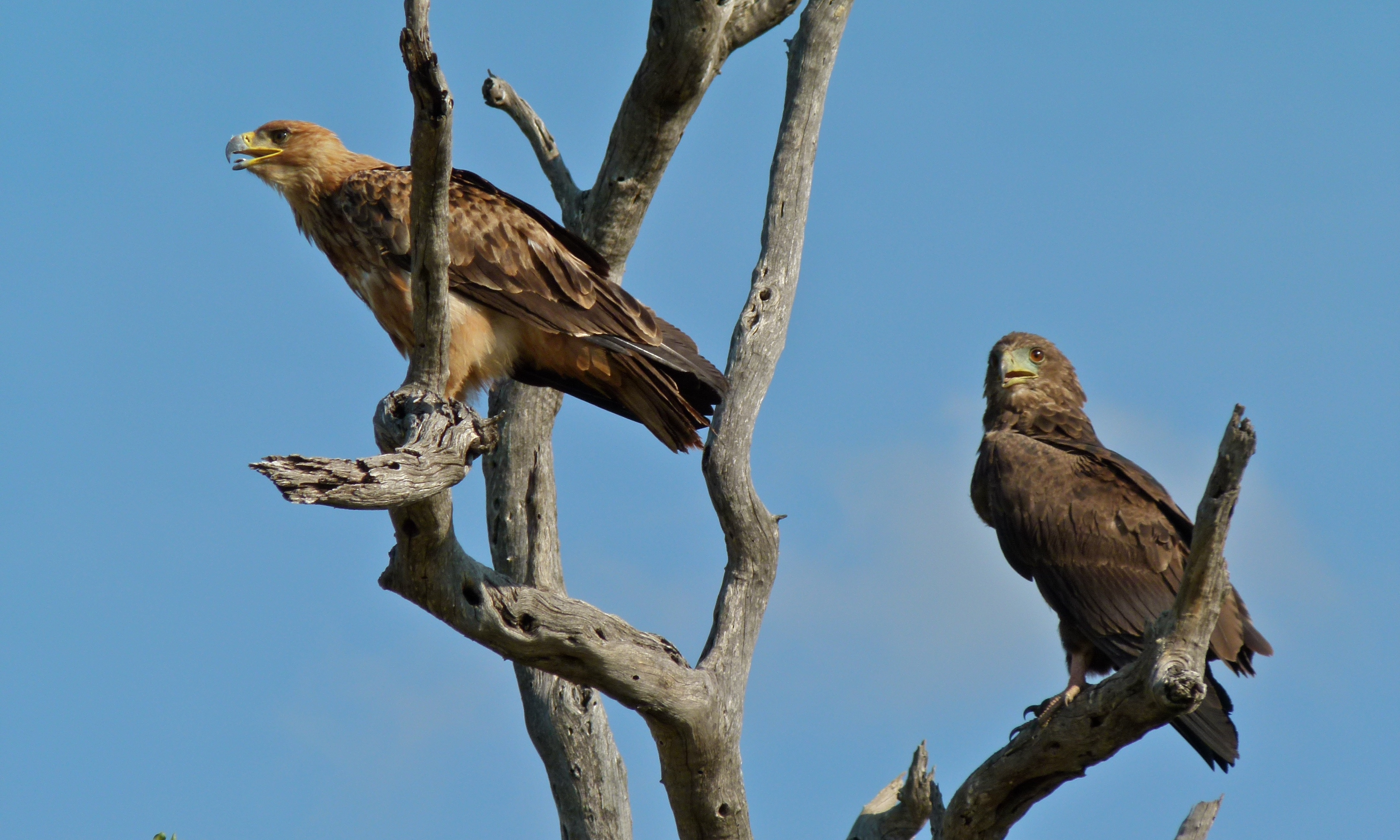 S39 South of Olifants, Kruger NP, SOUTH AFRICA